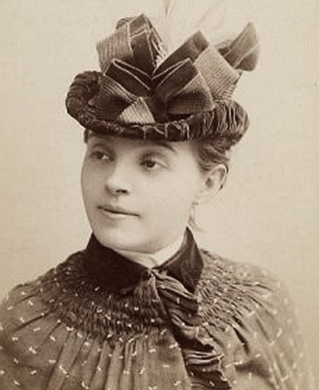 Gabrielle Rejane (Gabrielle Charlotte Réju) in the role of Adrienne in the room by Henri Meilhac My Comrade ', Variety, Paris, 1883.